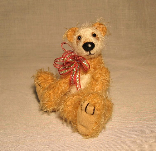 Artist teddy bear